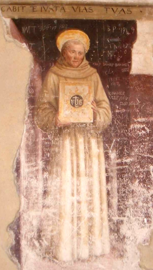 Giovanni Martino Spanzotti, "San Bernardino da Siena", ca 1486-91, fresco, scene from the large dividing wall of the convent church of San Bernardino, Ivrea, Italy